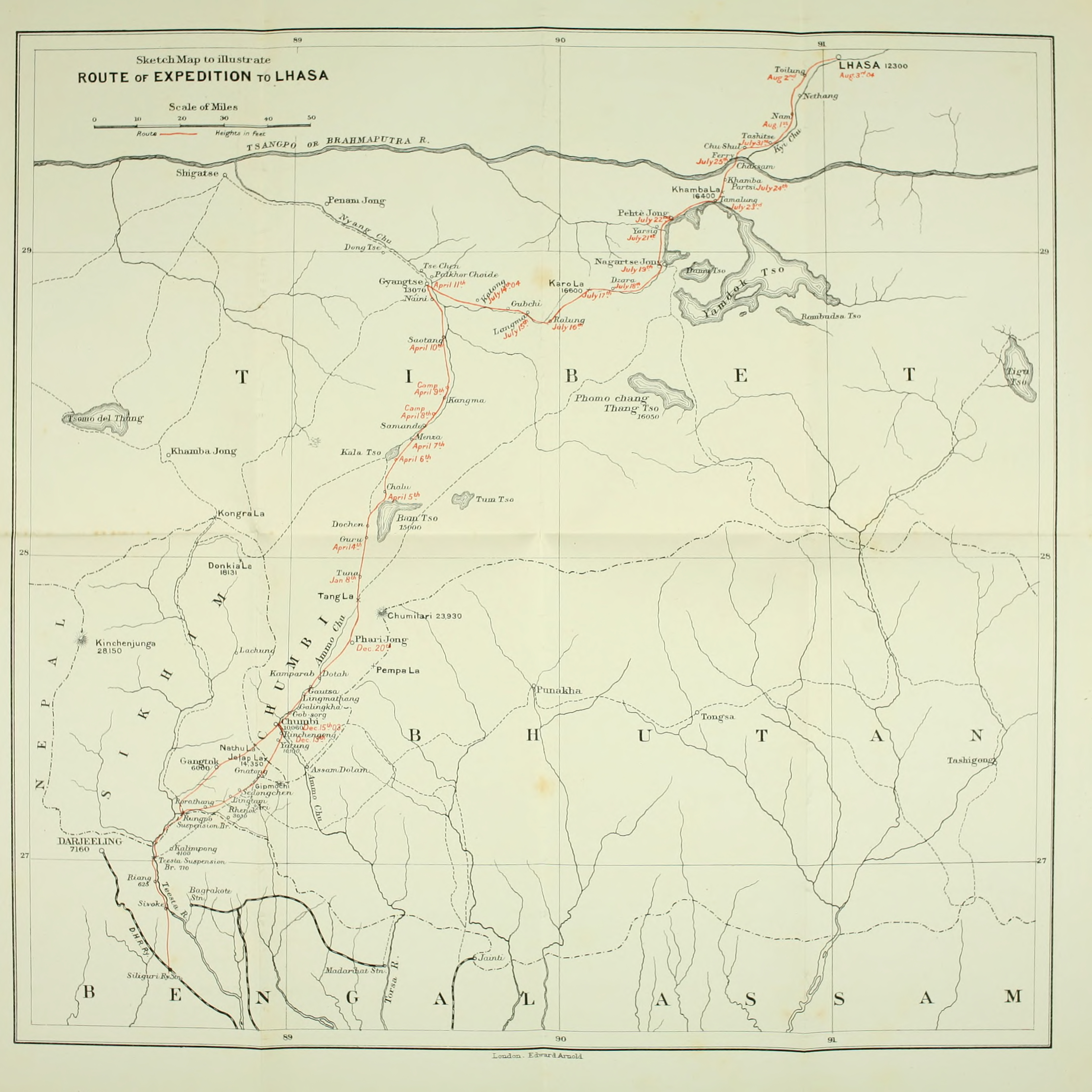 Sketch map to Illustrate route of Younghusband expedition to Tibet with date at each location.